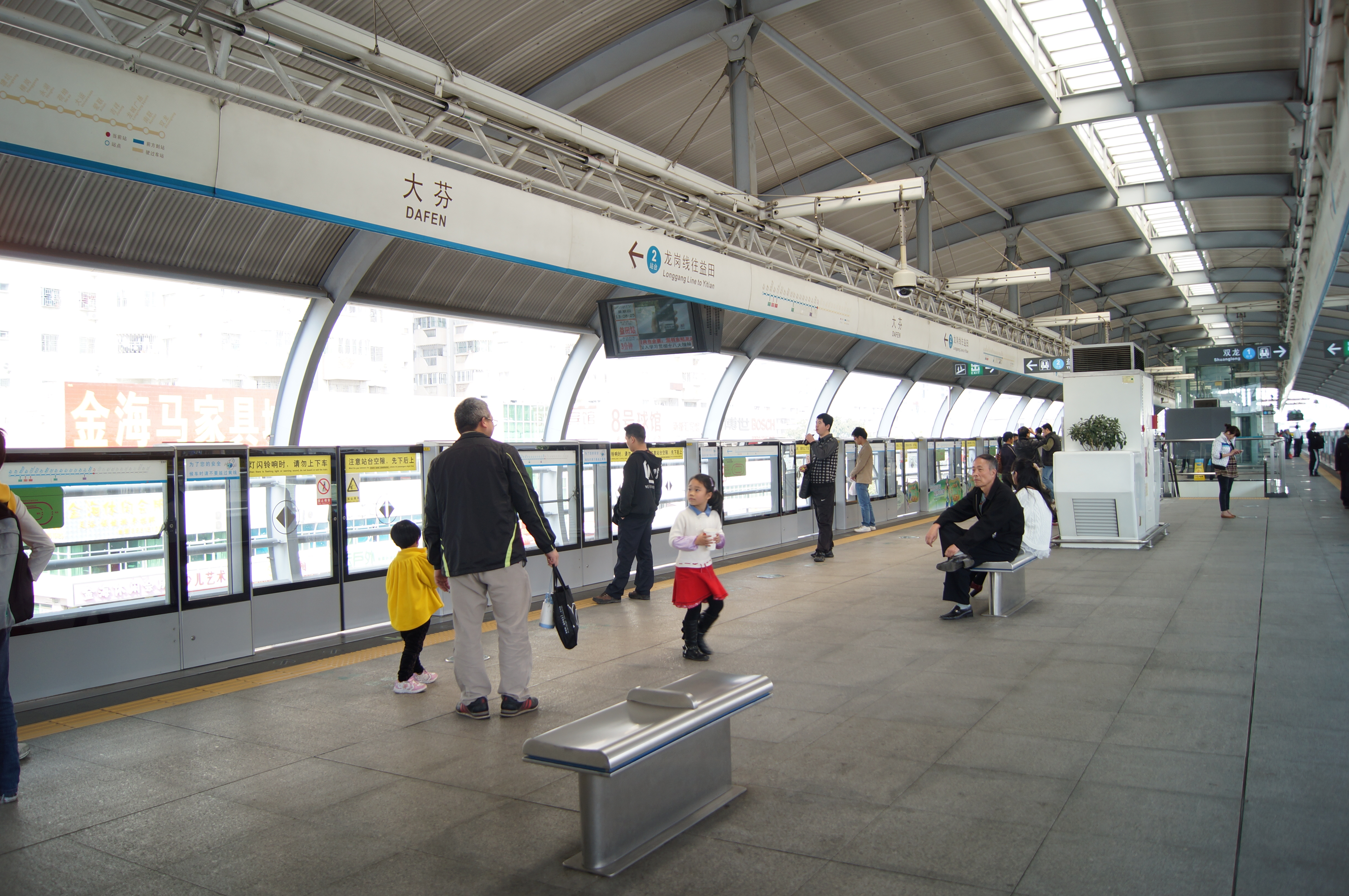 Platform of Dafen Station.